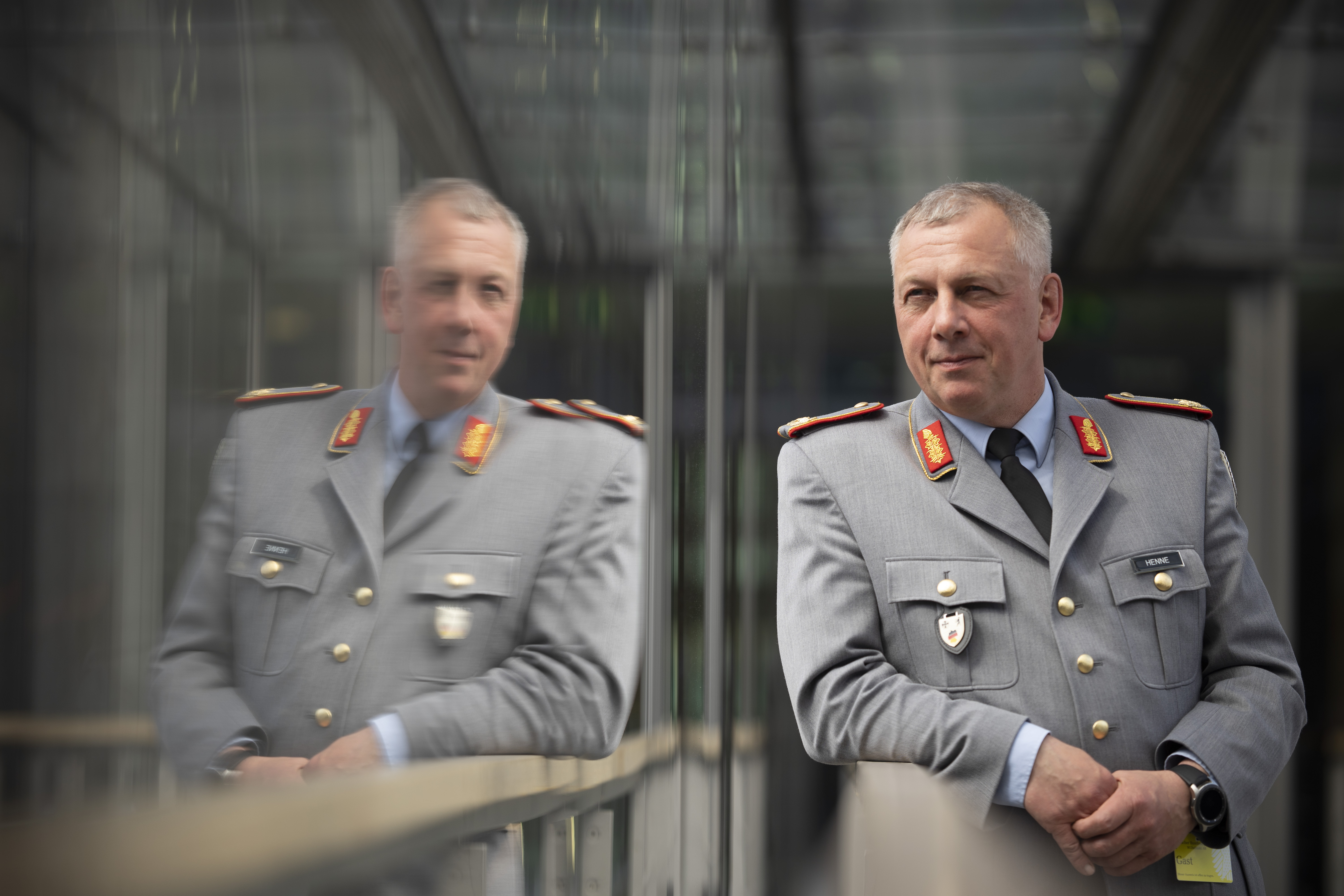 Brigadier General Andreas Henne Capital Commander Berlin